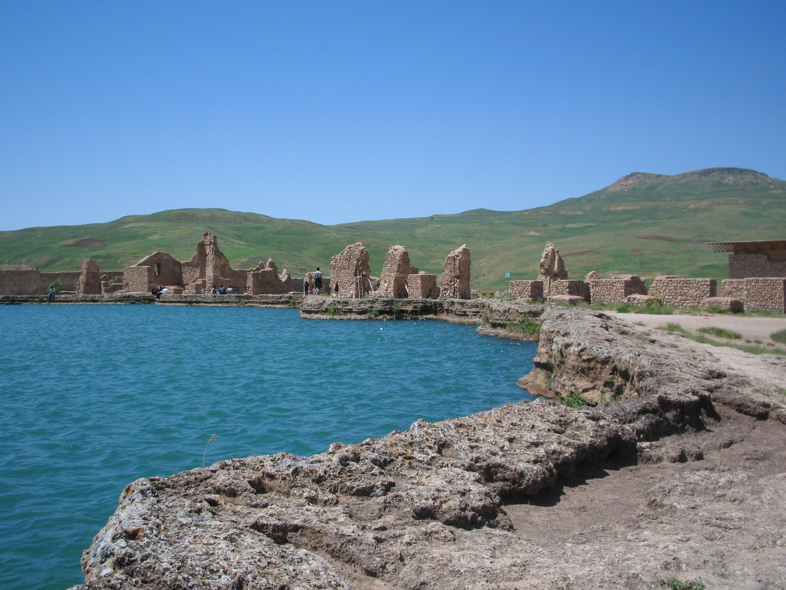 The Throne of Solomon, Takab, Iran (تخت سیلمان)